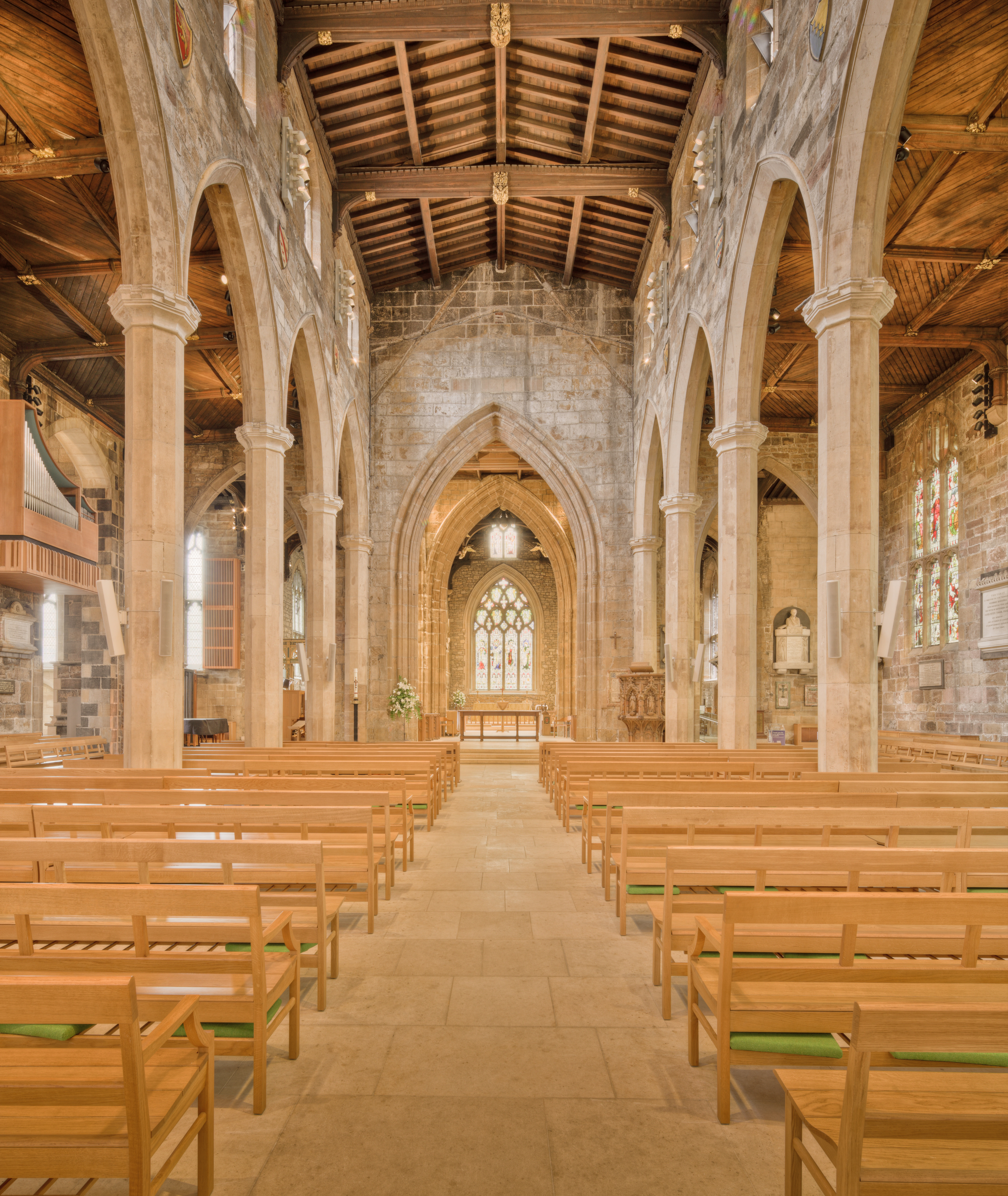 Here is a photograph take from the nave inside Sheffield Cathedral. Located in Sheffield, Yorkshire, England, UK. (Taken with kind permission of the administration).